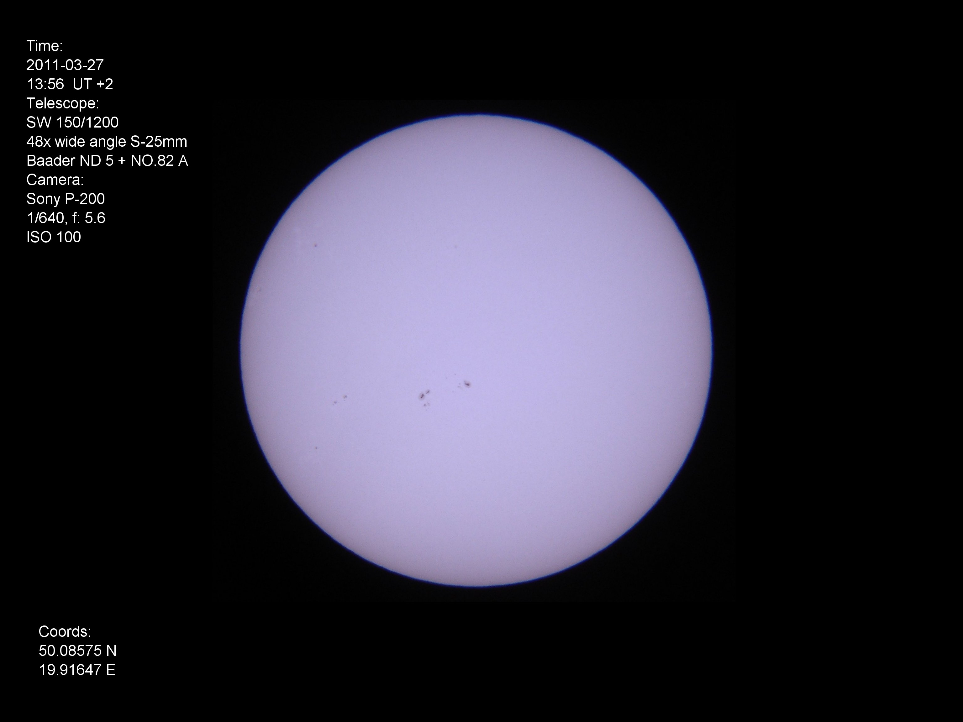 Ocular projection of the sun with a group of sunspots, using a scope (Newton 150/1200, 48x magnification) with Baader ND5 solar filter.